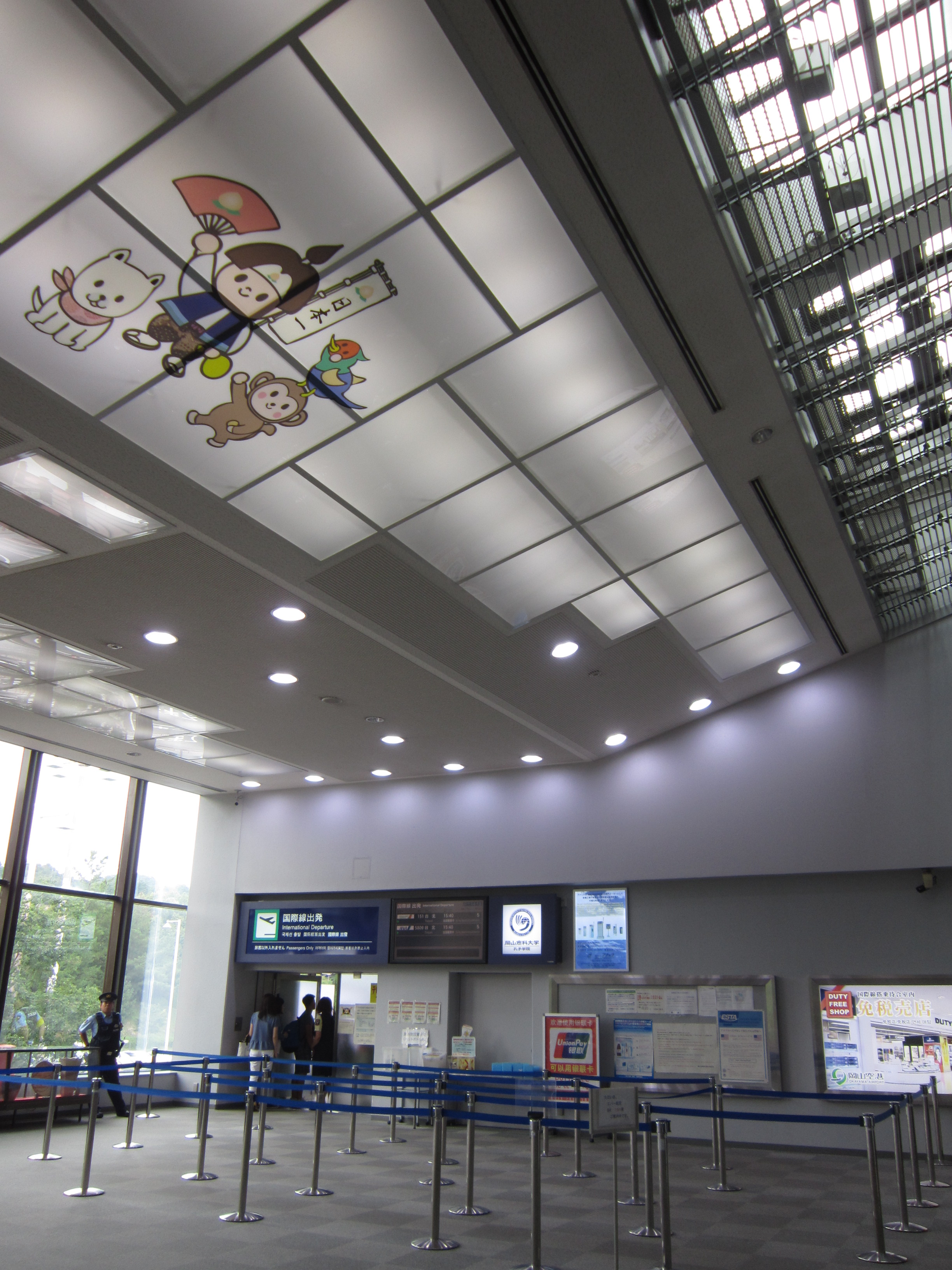 岡山機場二樓出境大廳一景(注意天花板有岡山特色桃太郎圖樣)